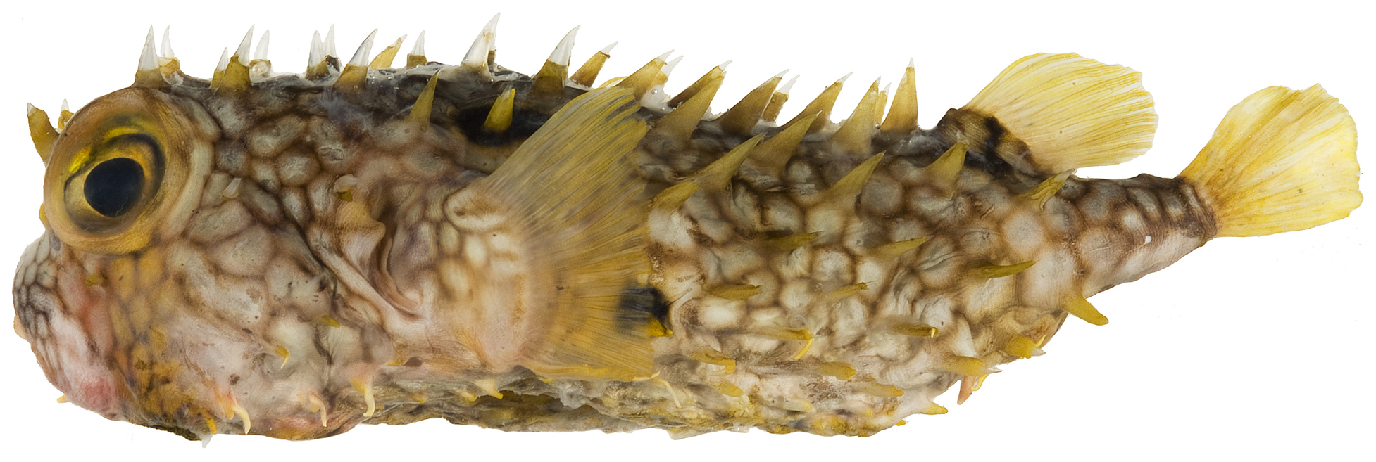 Chilomycterus antillarum Jordan & Rutter, 1897—web burrfish, 180.0 mm SL. Photo by JT Williams.